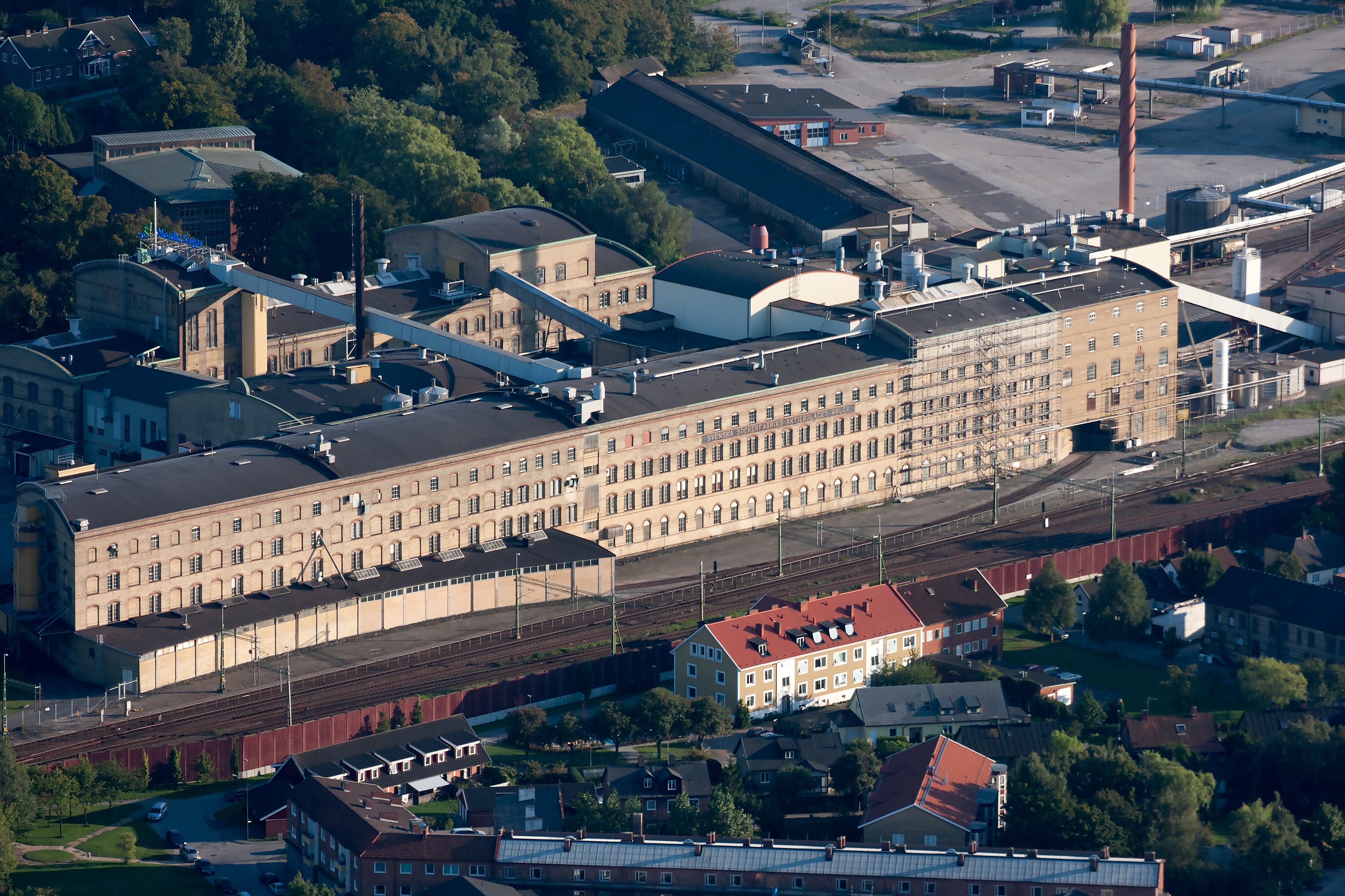 Arlöv sugar factory in Arlöv, Sweden. Arlövs sockerbruk i norra Malmö.